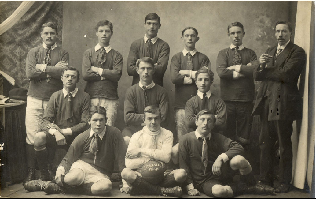 Picture taking in 1918 of the soccerteam "Oceania" from Clinge (the Netherlands).